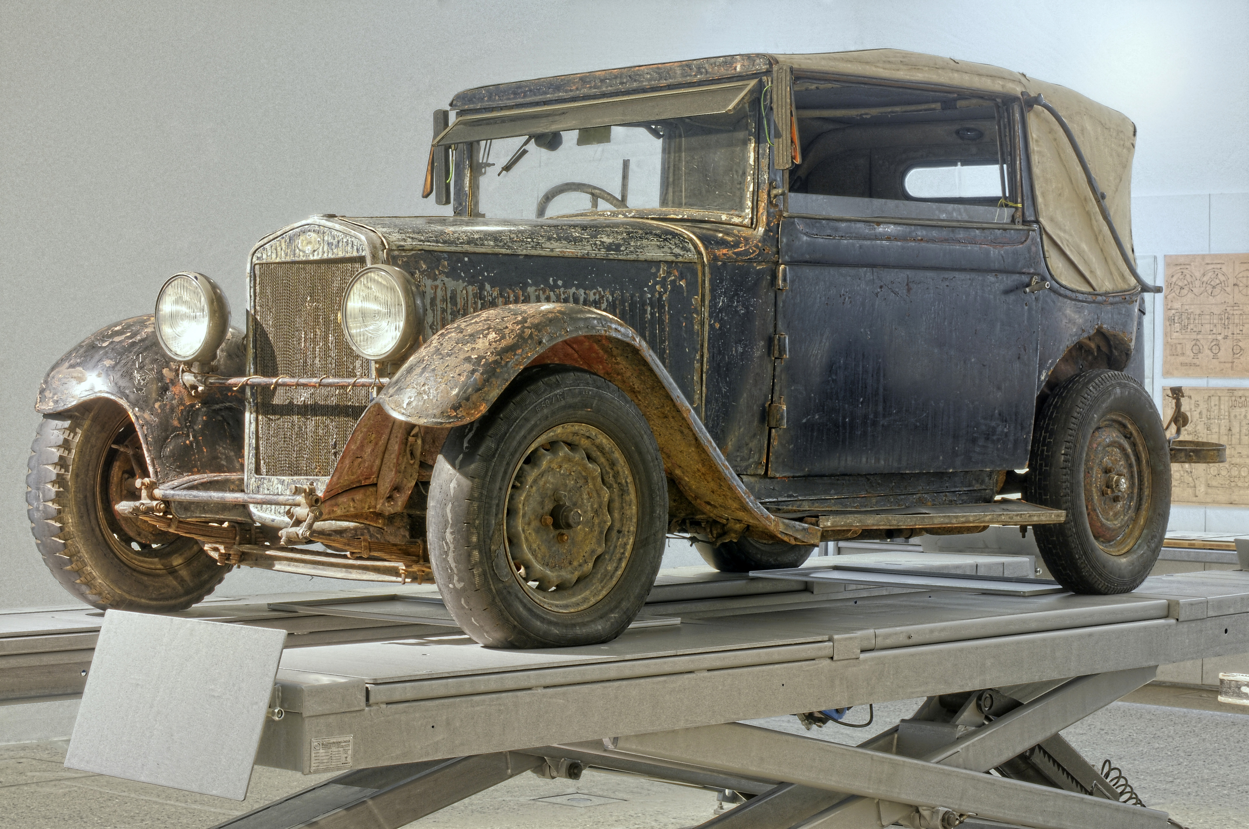 Škoda 422. Fototermin Škoda Muzeum 5. April 2013 in Mladá Boleslav This work is free and may be used by anyone for any purpose. If you wish to use this content, you do not need to request permission as long as you follow any licensing requirements mentioned on this page.